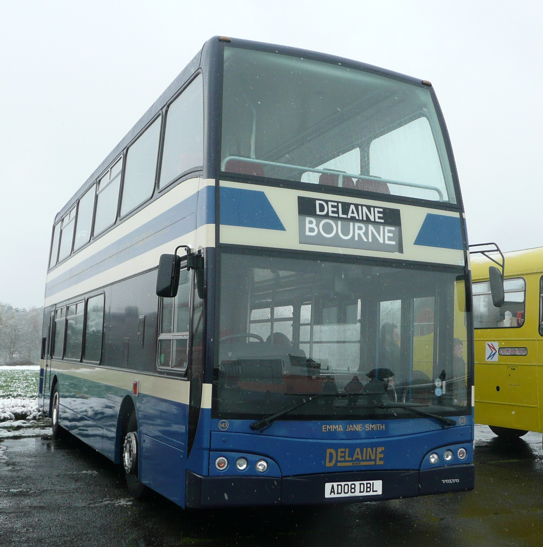 The 3rd of Delaine Buses' Darwen Olympuses.